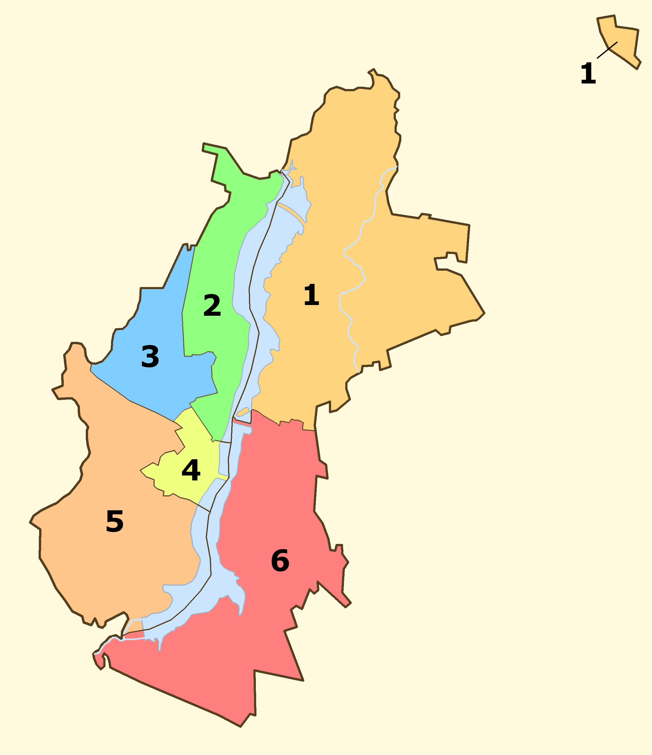 The map of administrative districts of the city of Voronezh 1. Zheleznodorozhny district 2. Tsentralny district 3. Kominternovsky district 4. Leninsky district 5. Sovetsky district 6. Levoberezhny district